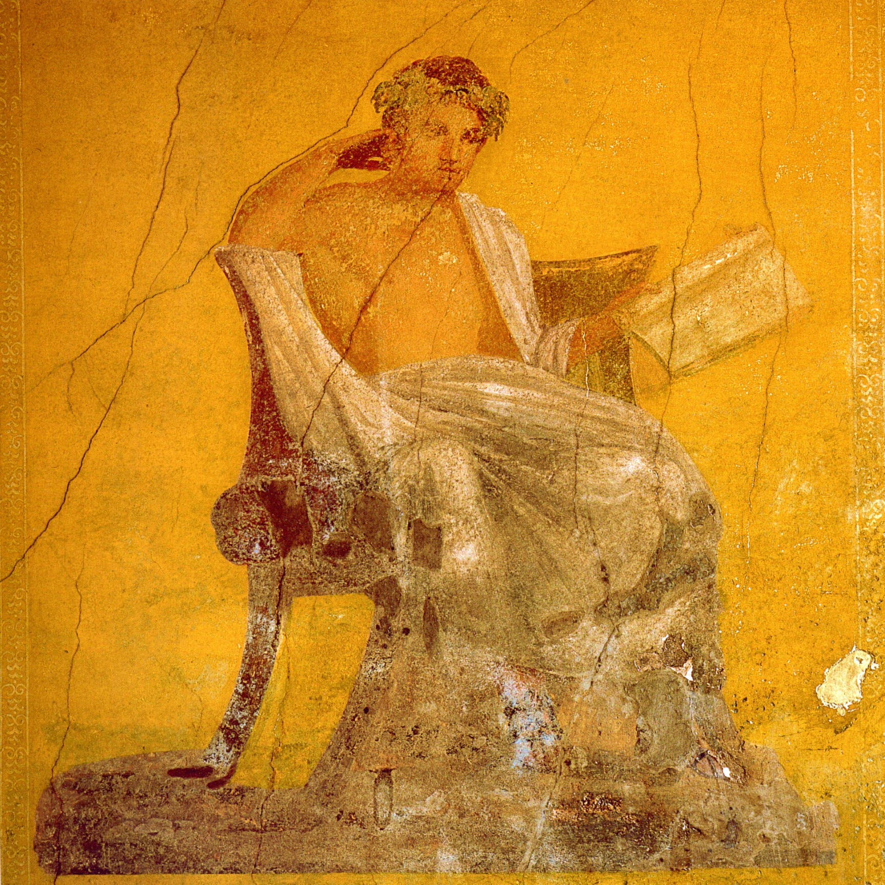 Roman fresco of the Greek dramatist Menander from the Casa del Menandro (I 10, 4) in Pompeii.